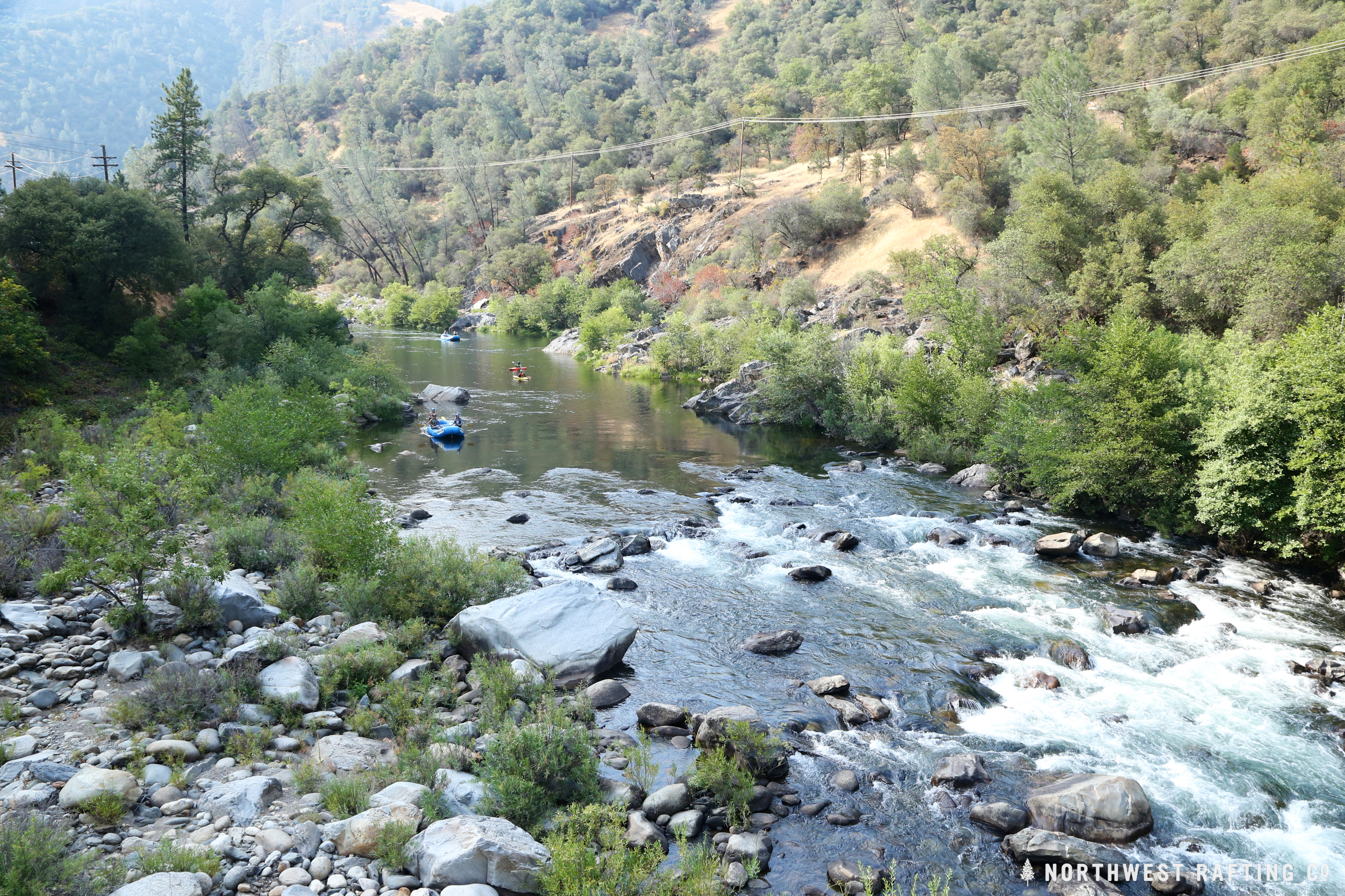 Stanislaus River, Sierra Nevada, California